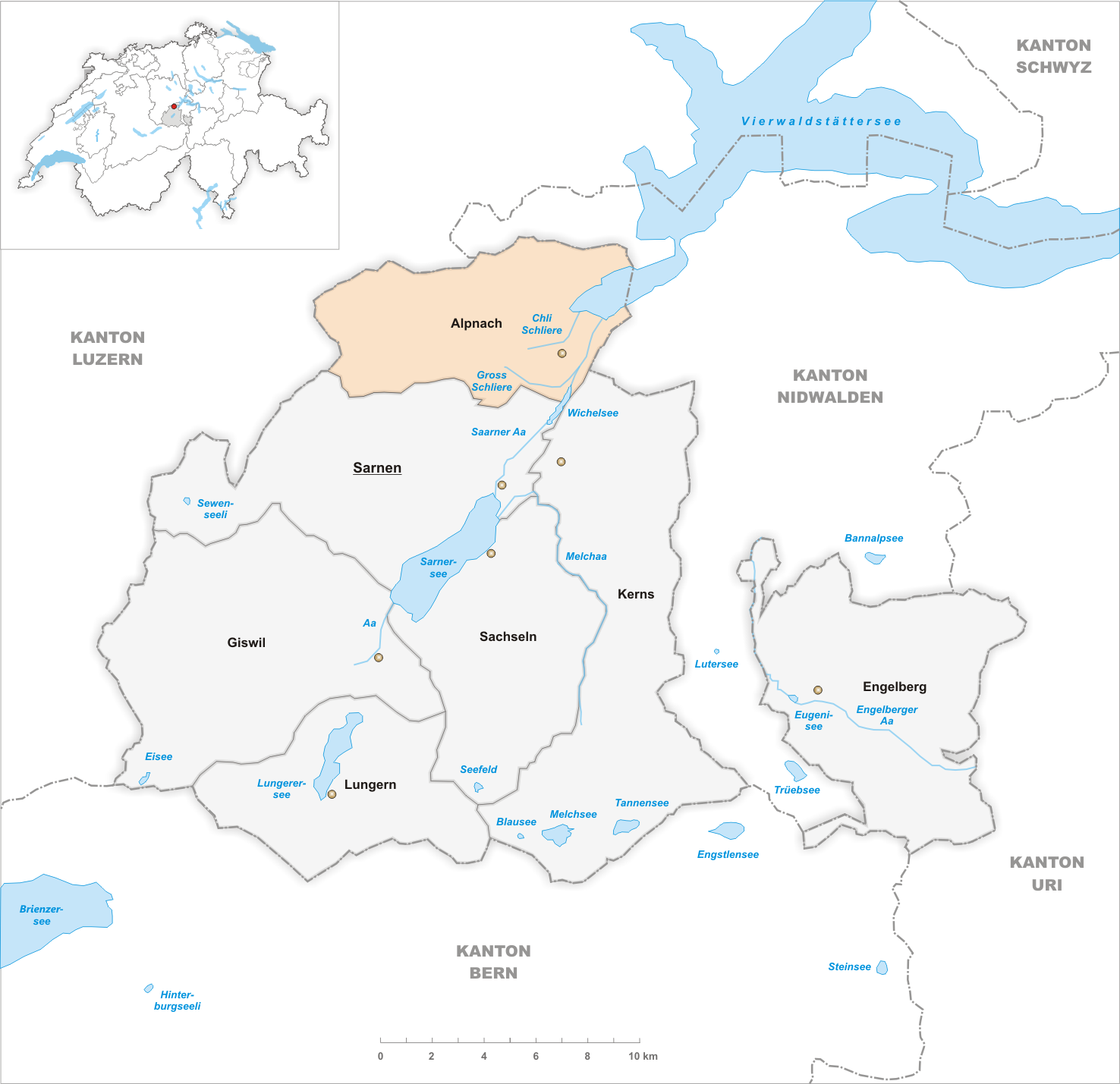 Municipality Alpnach